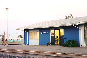 Train station in Wolf Point, Montana, United States